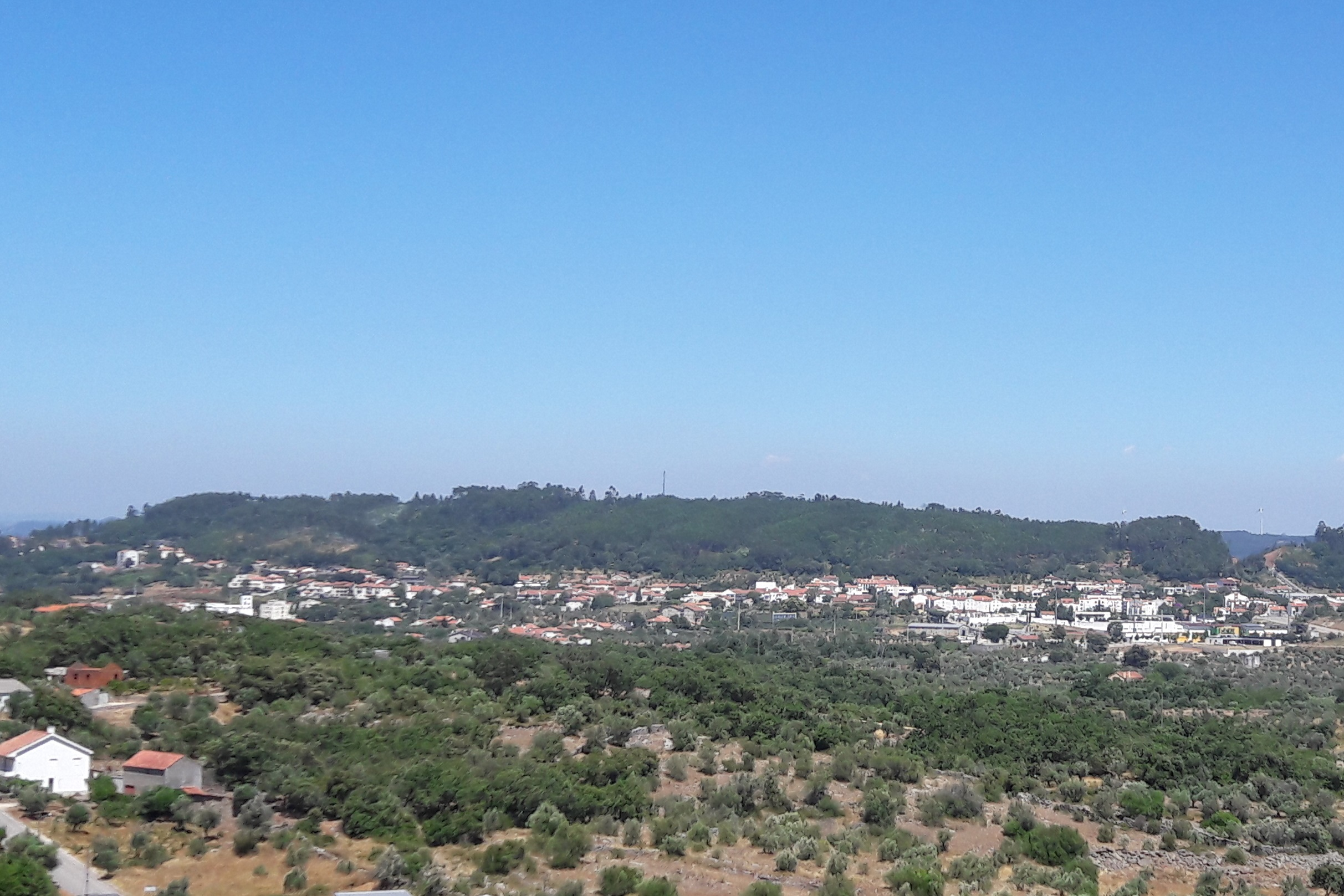 Partial panoramic view of Alvaiázere in 2016 from the Chapel of Our Lady of Covões